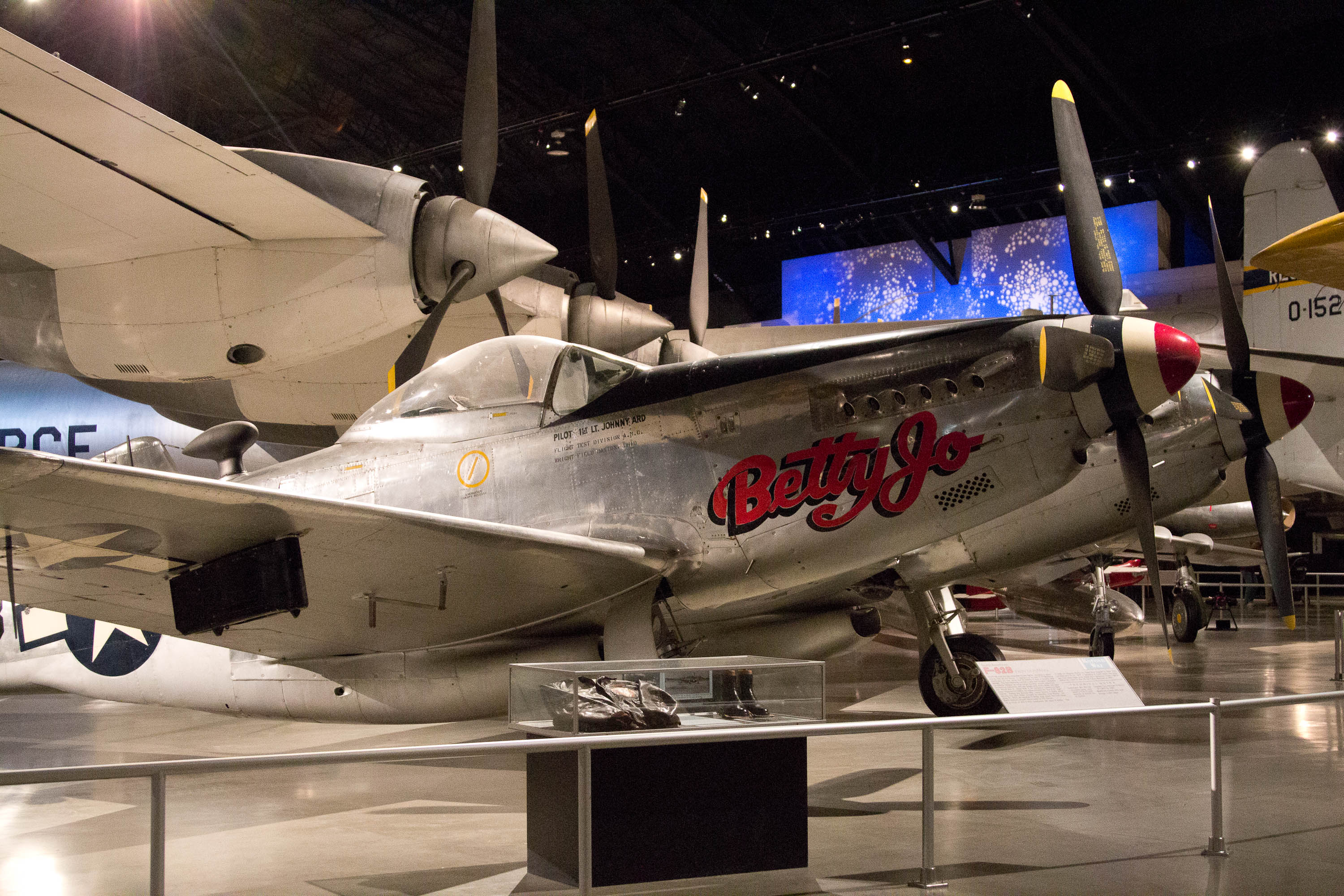 Photo Credit: Anjie Trusty. This is one of two twin Mustangs on display at Wright Patterson Air Force Base. The other model is black.